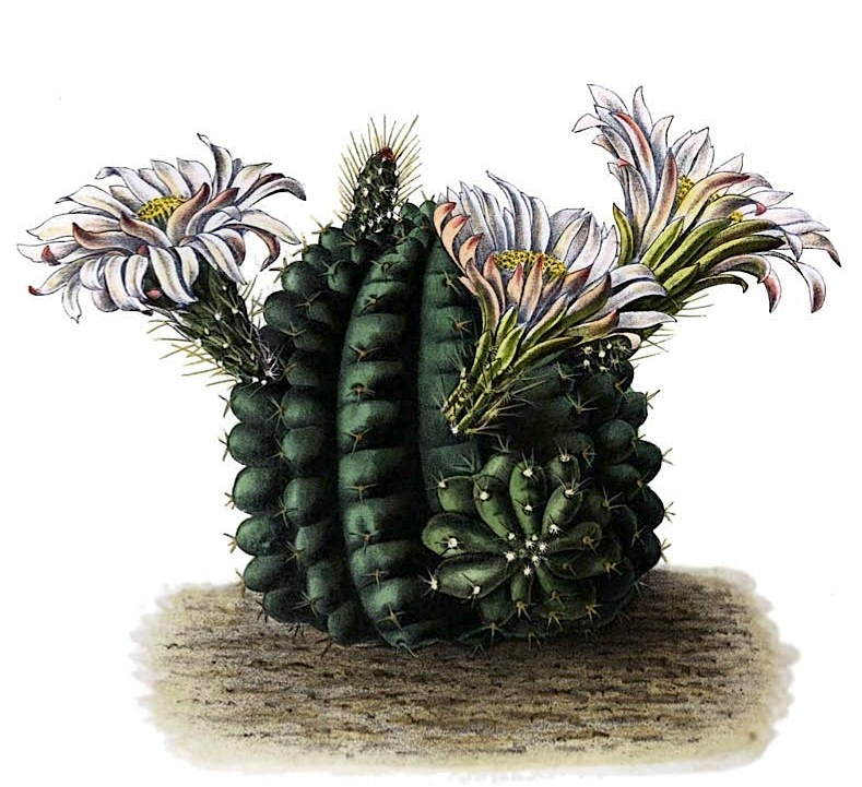 Echinocereus pulchellus